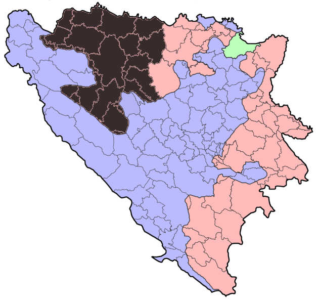 Municipalities in Bosnia and Herzegovina, Banja Luka region (RS) highlighted